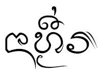 Lanna script – Na Muen is a district (Amphoe) in the southern part of Nan Province, northern Thailand.